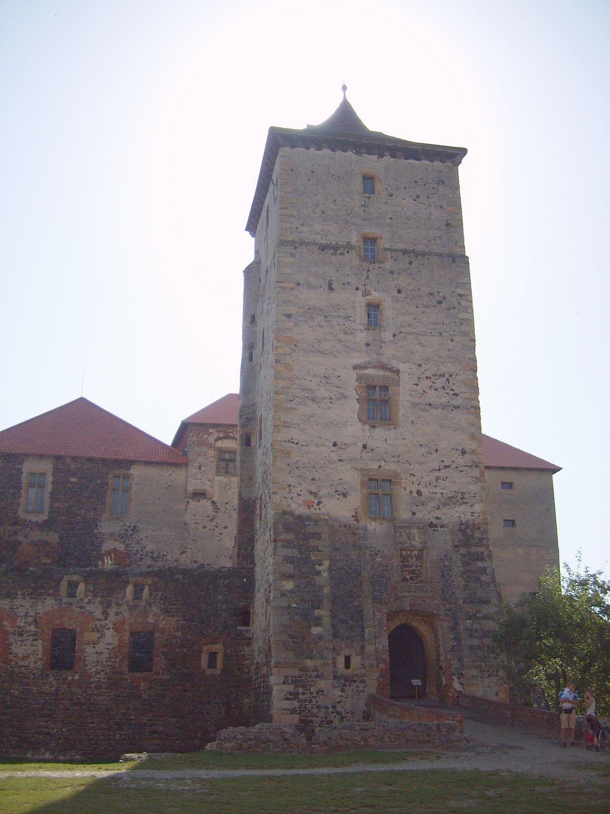 the tower of castle Švihov